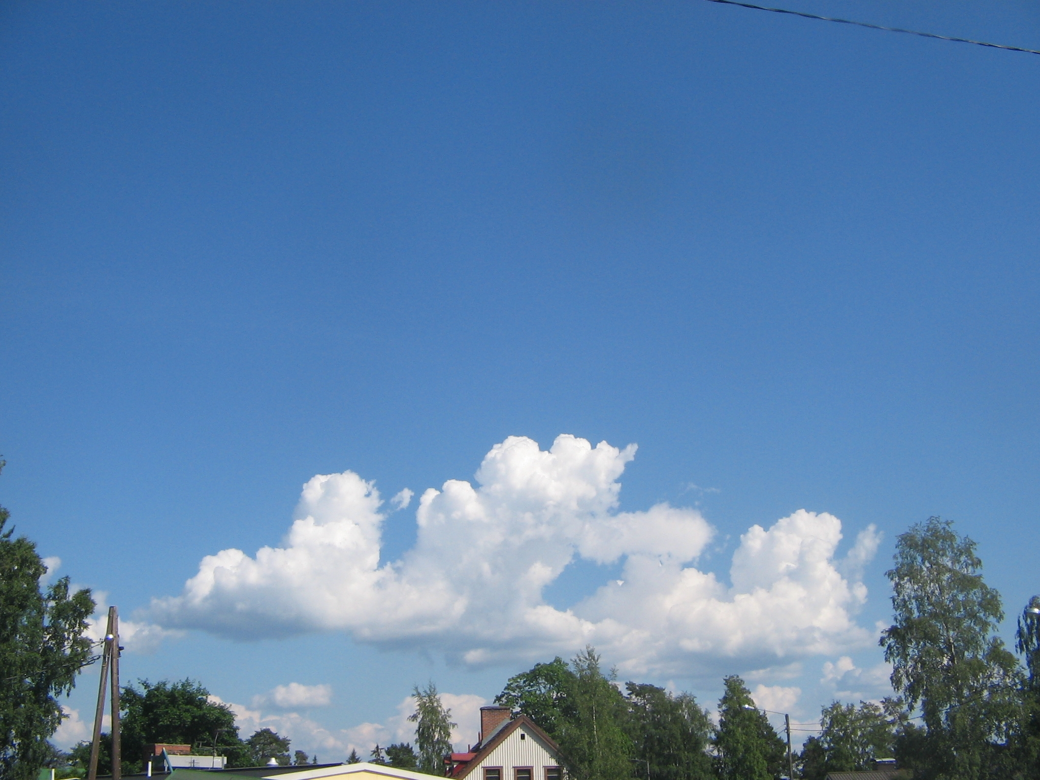 Weather/Clouds/Cumulus castellanus-cloud, calused by instability on middle troposphere, often predicts thunderstorm /showers.